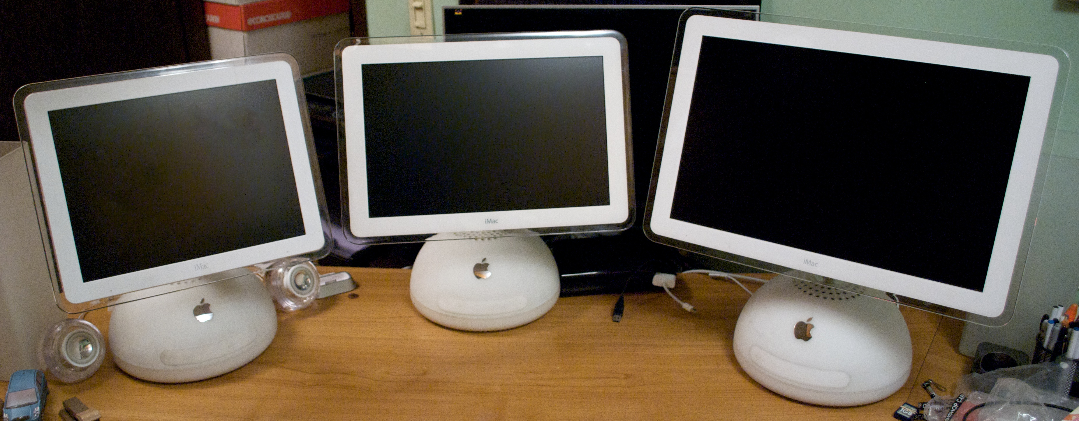 All iMac G4 models lined up.